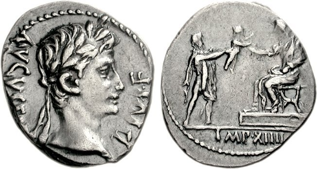 Augustus. 27 BC-AD 14. AR Denarius (3.93 g, 6h). Lugdunum (Lyon) mint. Struck 8 BC. AVGVST[VS] DIVI • F, laureate head right IMP • XIIII in exergue, on right, Augustus, bareheaded and togate, seated left on curule chair set on low daïs, extending his right hand toward a cloaked Gaul or German on left, standing right, presenting a child held out in both hands toward Augustus. RIC I 201a; Lyon 65; RSC 175; BMCRE 493-5 = BMCRR Gaul 216-8; BN 1453-5.